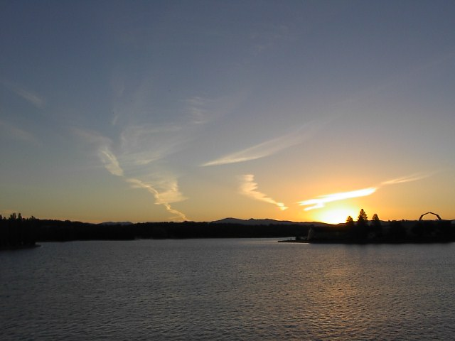 Lake Burley Griffin - a large lake in the centre of the Canberra, Australia's federal capital city.